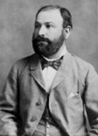 Photograph of the composer Jan Levoslav Bella, dating from c. 1880